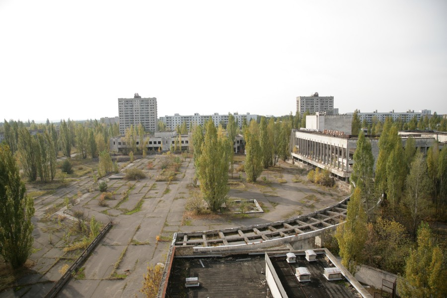 The center square of Pripyat, once home for 50,000 people. After 22 years of neglect, nature has started to seep through the concrete. The photo is from October 2008.